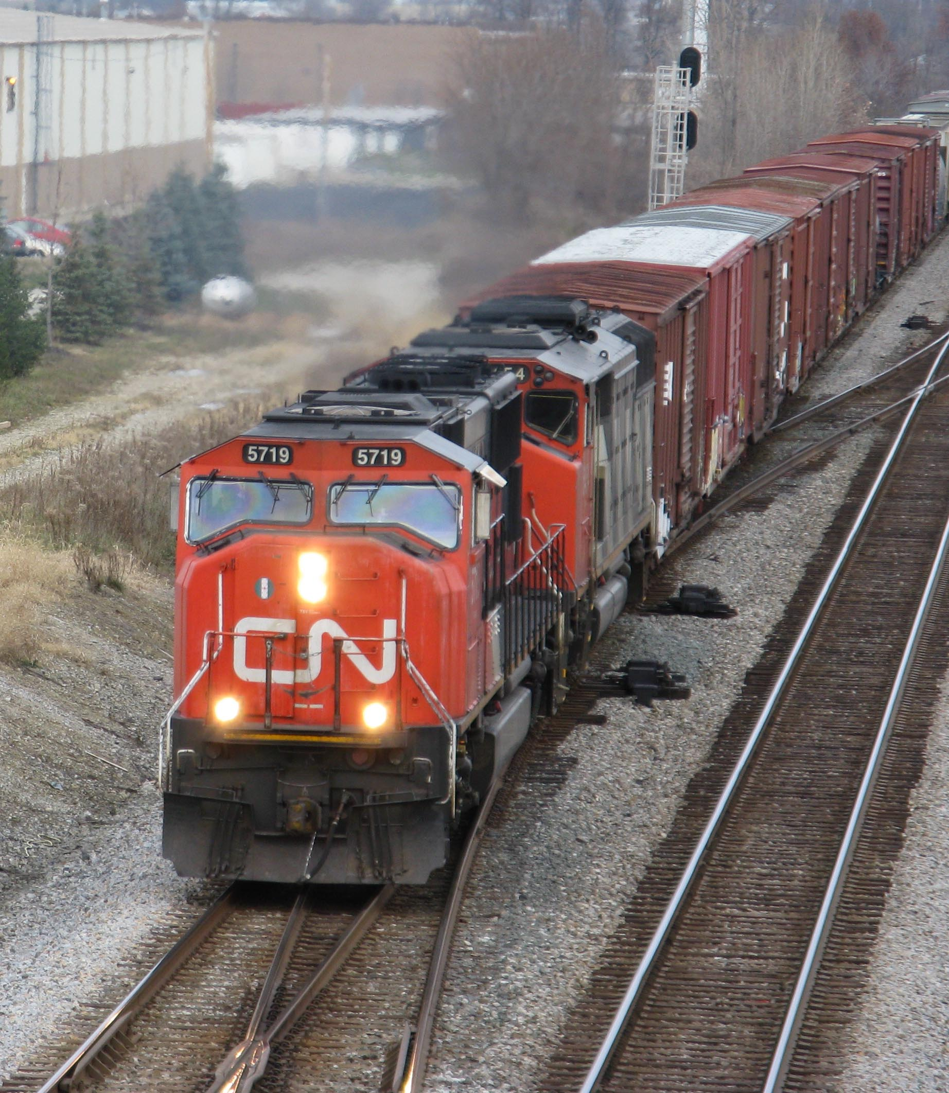 2007-12-01 10.39.14 Two Canadian National diesels pull a southbound freight train on the Norfolk-Southern railroad. It is a nice change from the drab, black diesels that NS runs. My father used to watch PRR J-class steam locomotives work this line. The Columbus helper engine would cut off at Lewis Center and return to the Columbus yards to assist the next coal drag headed for the docks at Sandusky. Nowadays, when you see boxcars on this line you are almost certainly dealing with auto parts. I was standing on top of the Polaris Parkway Bridge near the Polaris Mall (State Rt. 740), facing north into a biting wind on a chilly Saturday morning.